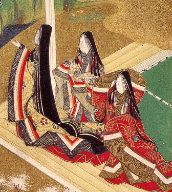 Ilustration of the Genji Monogatari, ch.5–Wakamurasaki Traditionally credited to Tosa Mitsuoki (en:1617–en:1691). Part of the Burke Albums, property of Mary Griggs Burke